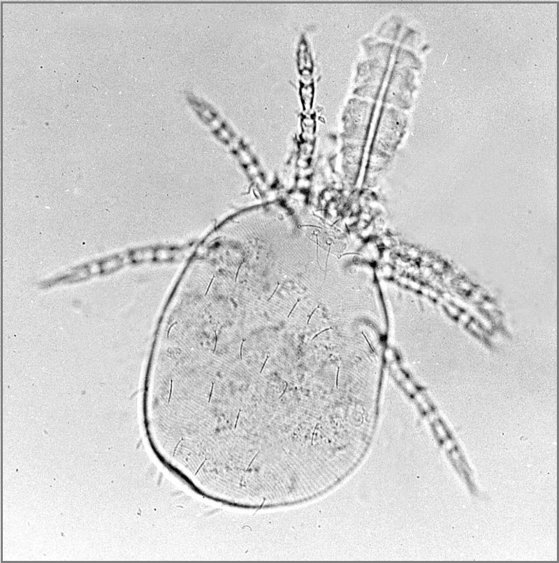 Photograph of a parasitic mite of domestic animals.